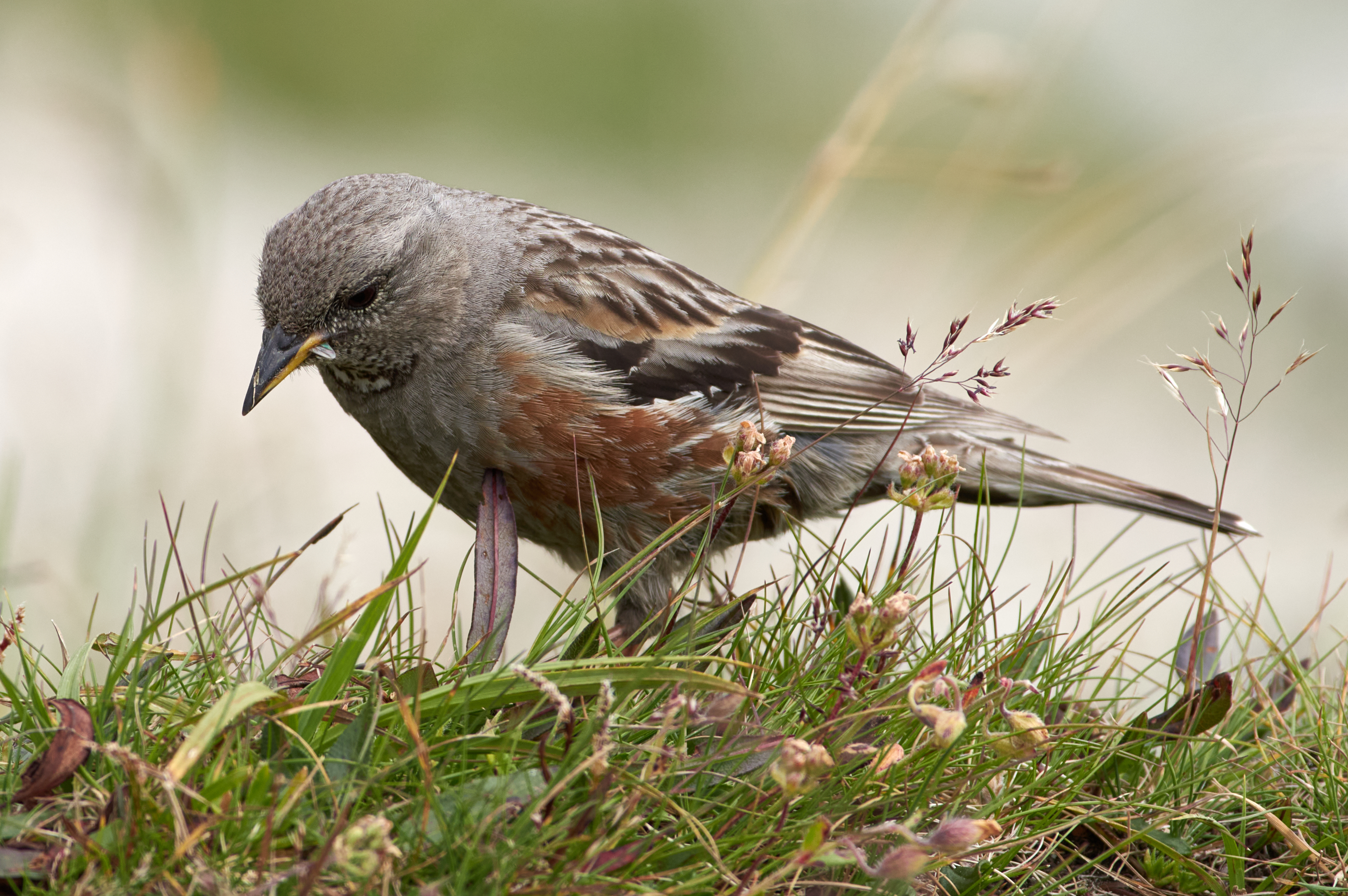 Alpine Accentor (Prunella collaris), mountain Nebelhorn, Germany